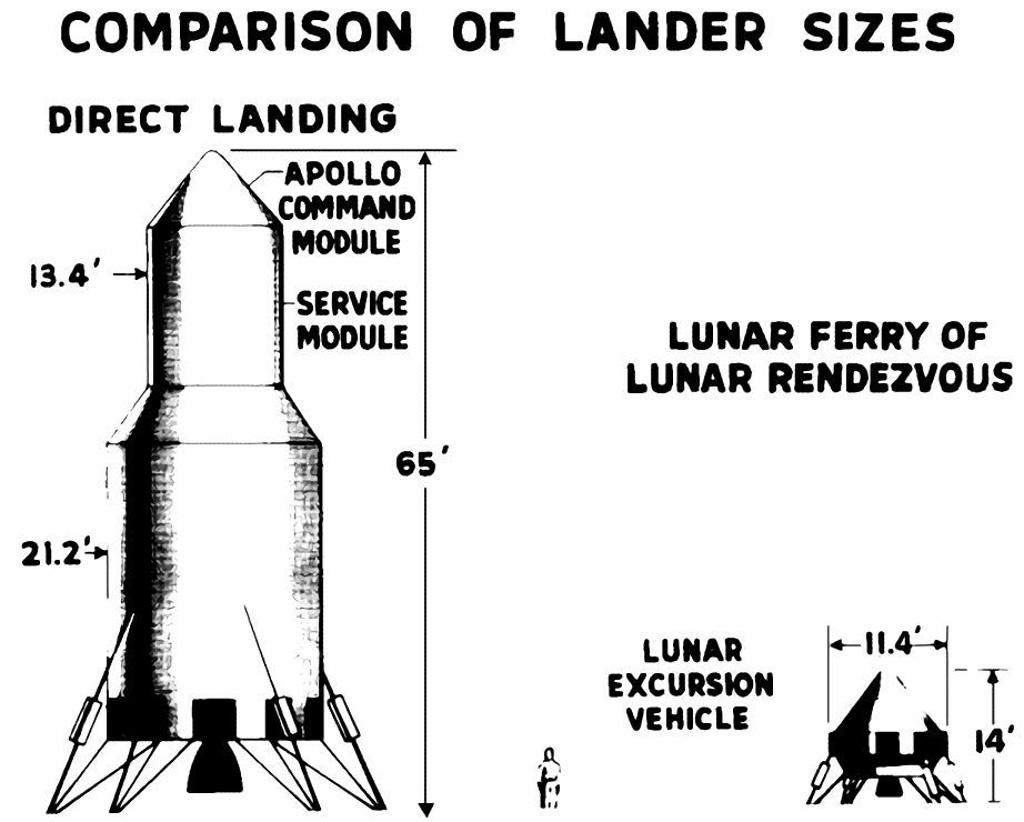 Comparison of Lander Sizes, Direct Landing versus Lunar Orbit Rendezvous. From: Chariots for Apollo: A History of Manned Lunar Spacecraft By Courtney G Brooks, James M. Grimwood, Loyd S. Swenson NASA Special Publication-4205 in the NASA History Series, 1979